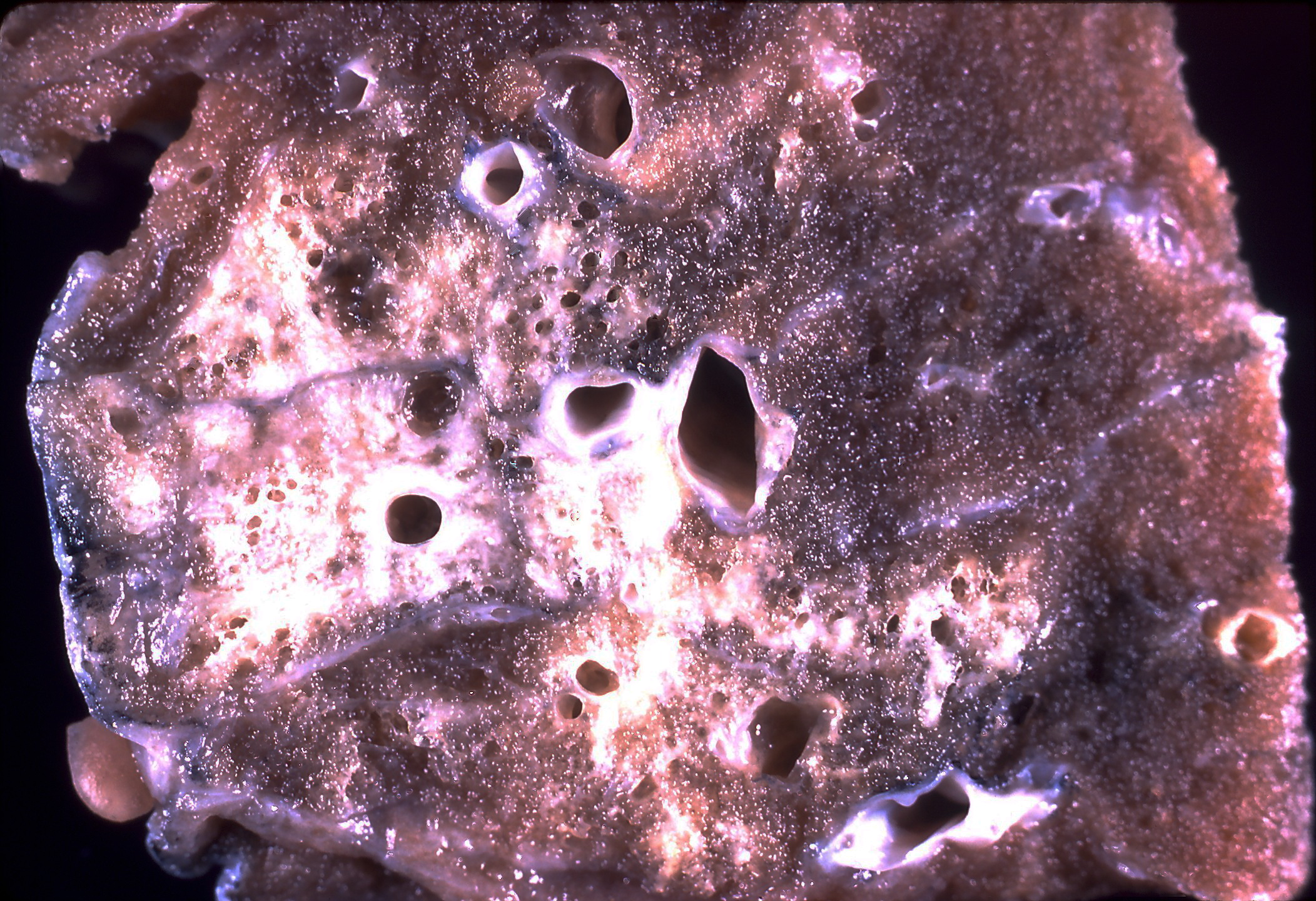 Pneumocystis jiroveci infection; focal lung involvement